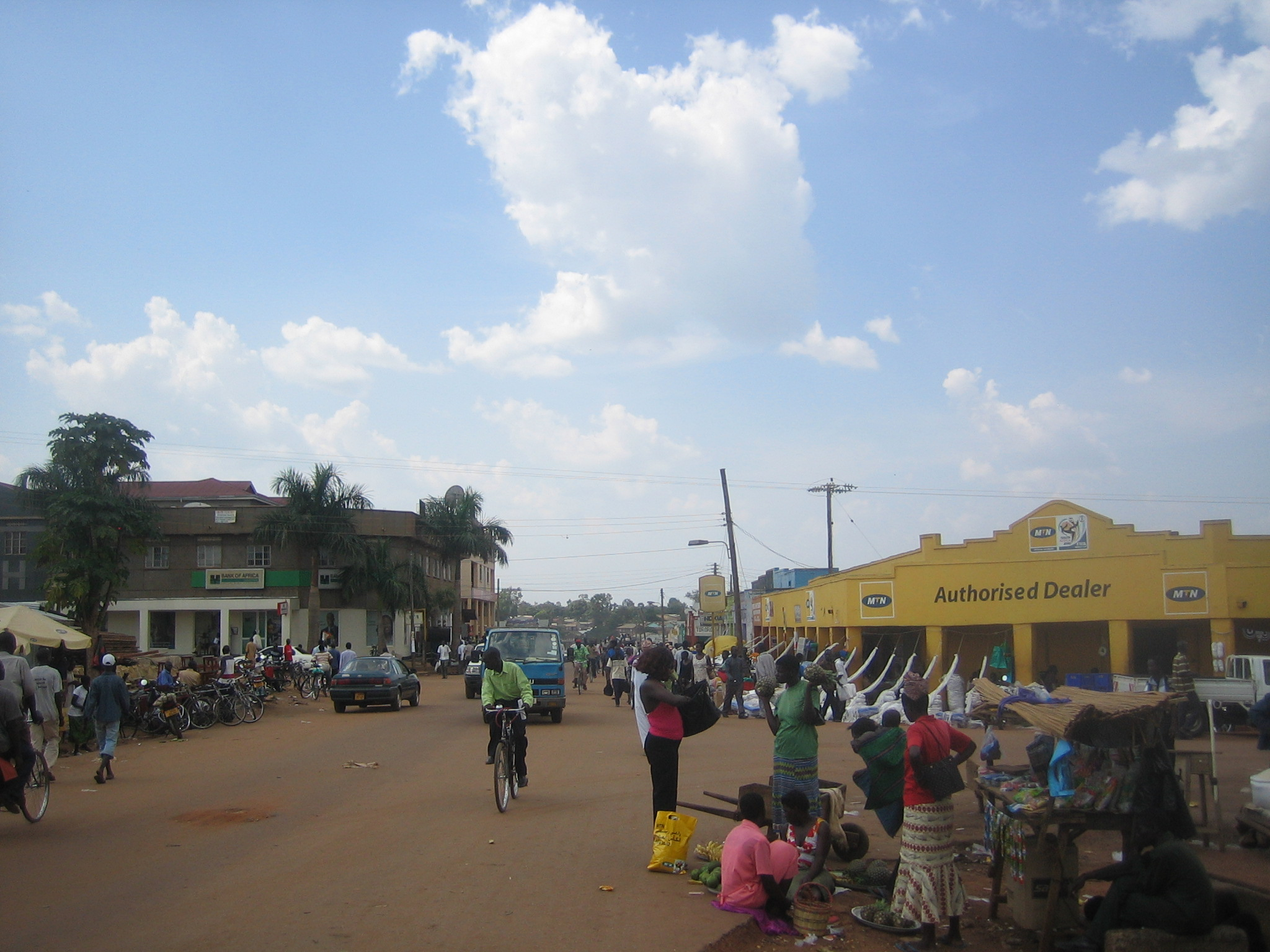 A Picture over seeing Town View Hotel in Lira, Uganda.